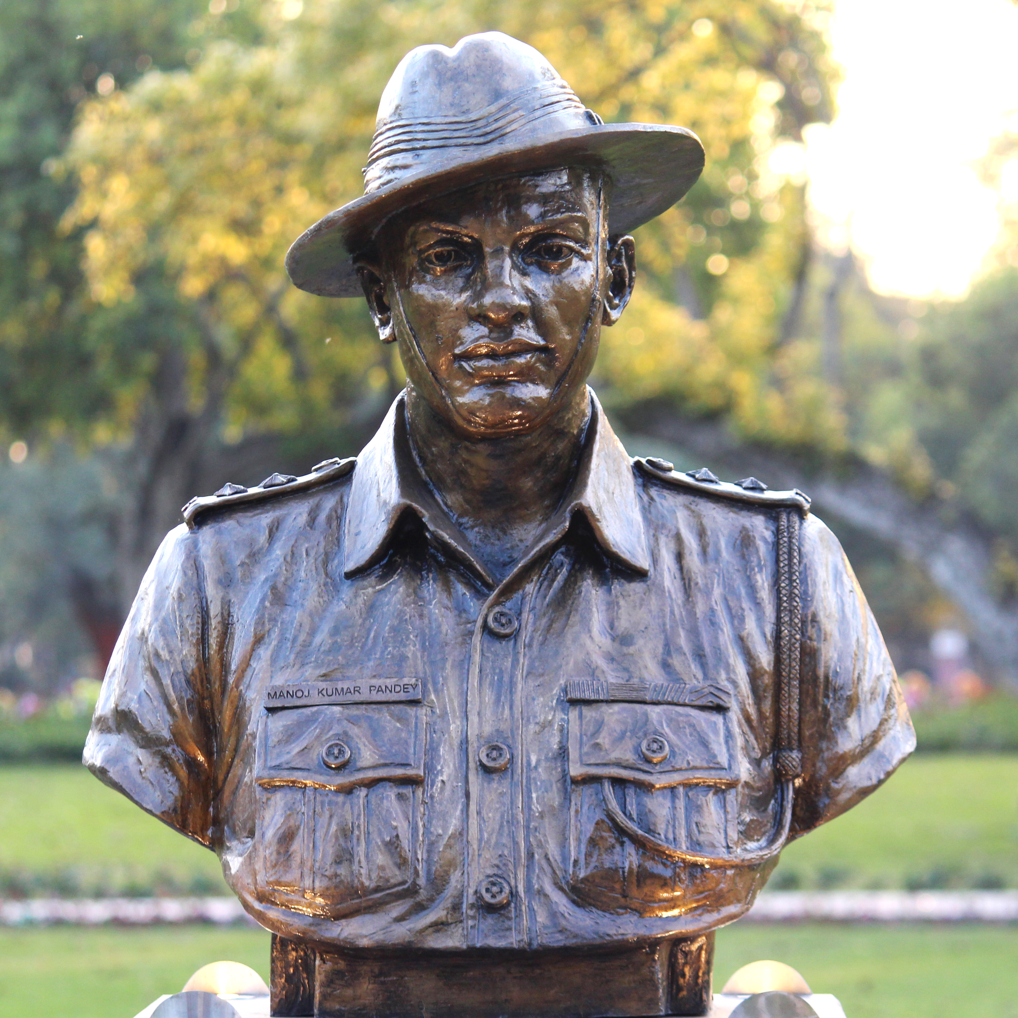 Lieutenant M K Pandey's statue at Param Yodha Sthal (section for Param Vir Chakra recipients), National War Memorial, New Delhi.